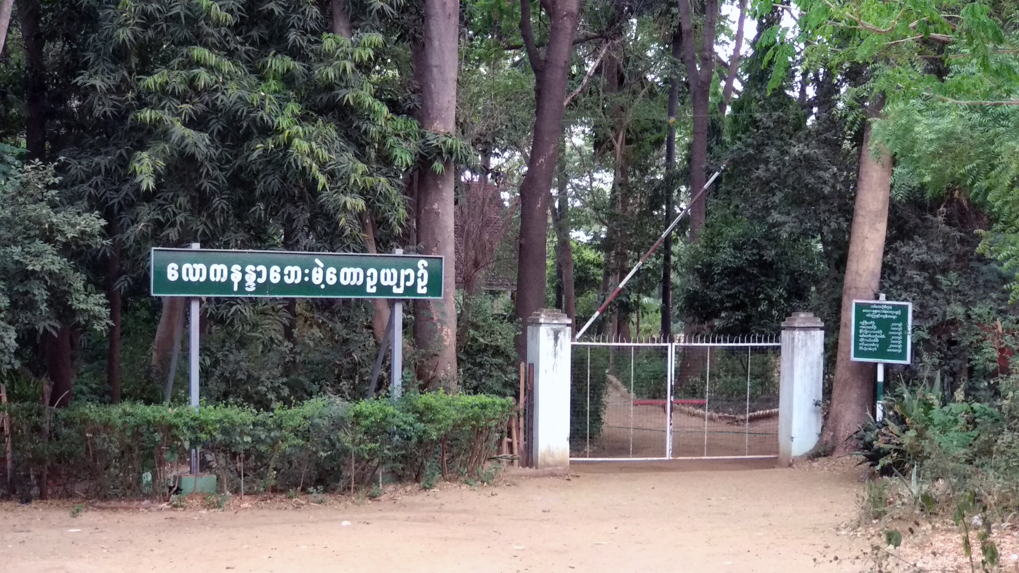 Lawka Nandar Wildlife Sanctuary at Bagan, Myanmar မြန်မာဘာသာ: လောကနန္ဒာ ဘေးမဲ့တောဥယျာဉ်